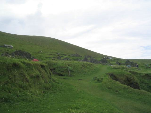 The village, An Blascaod Mór. An Blascaod Mór, or Great Blasket, was the last of the Blasket Islands to be inhabited. It was abandoned and its inhabitants resettled a few miles away on the mainland in 1953, due to the increasing inability of the mostly elderly population of twenty or so to sustain itself. The population of the Blasket Islands, though never large, spawned a proportionally surprising number of Irish-language writers, most famously Tomás Ó Criomhthain. The ghost village is quite busy in the summer with day trippers and campers (tents are visible in the above image erected inside the ruined houses) and a small shop or two cater for their needs in regard of tea and the obligatory local handicrafts.